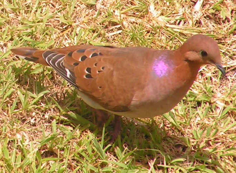 Zenaida aurita, photographed on St. Lucia